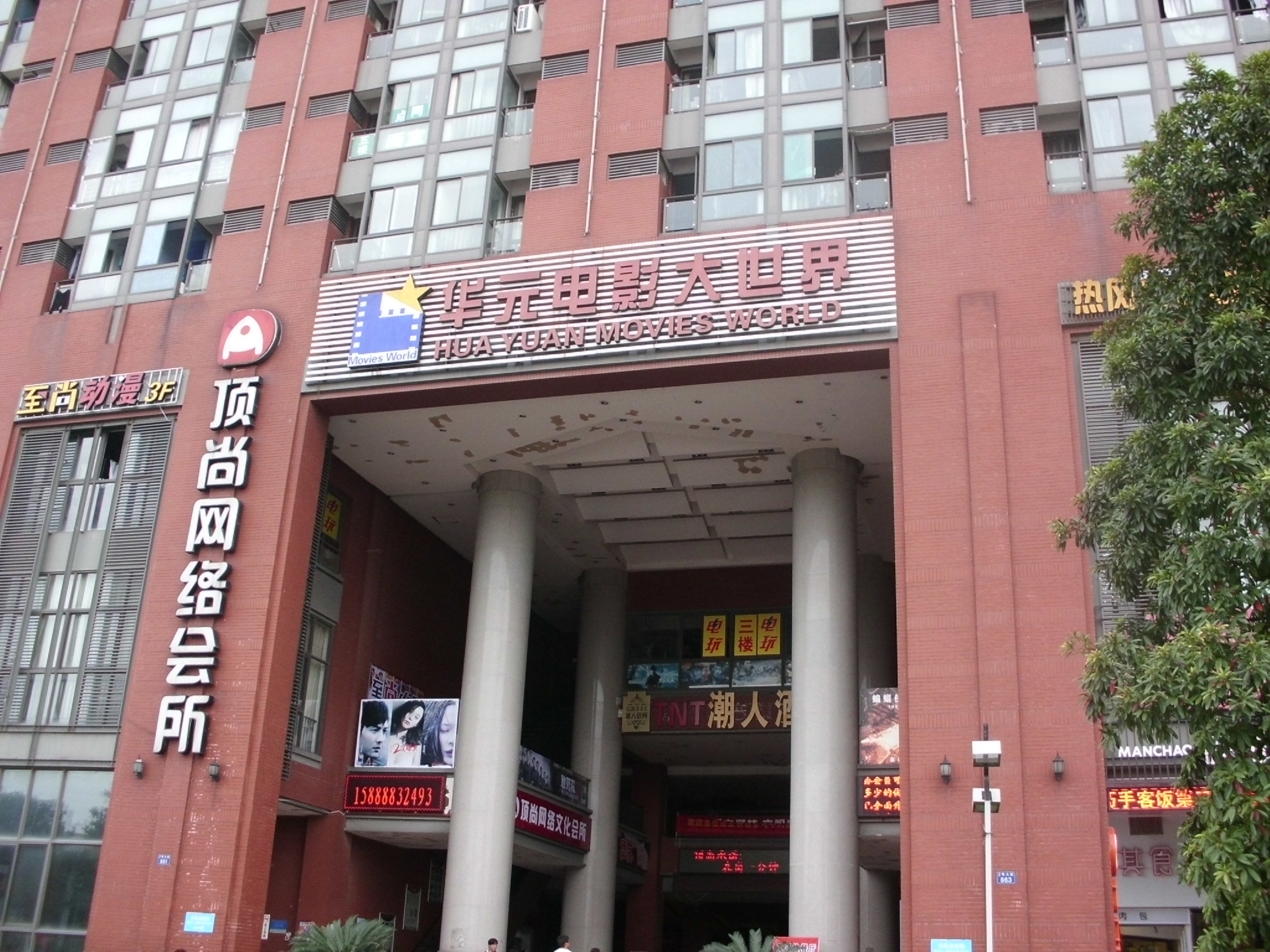 Xiasha District